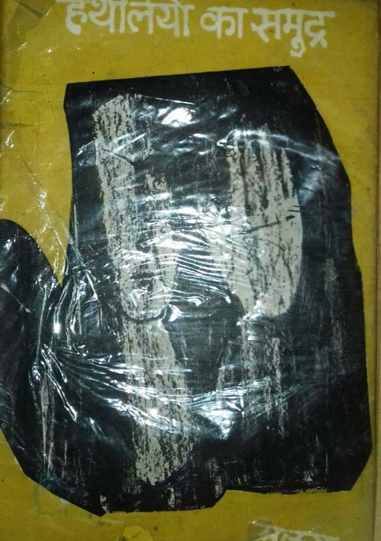 Kavi Malay's First book Published in 1962